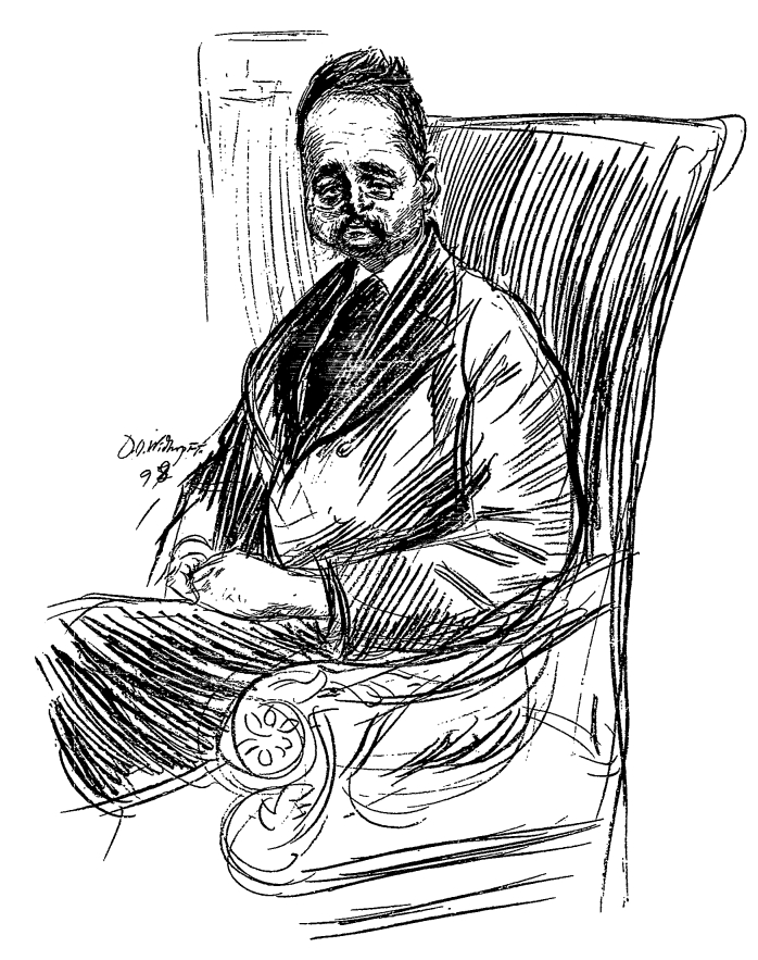 French poet and writer Adolphe Retté (1863-1930) by David Ossipovitch Widhopff (1867-1933)